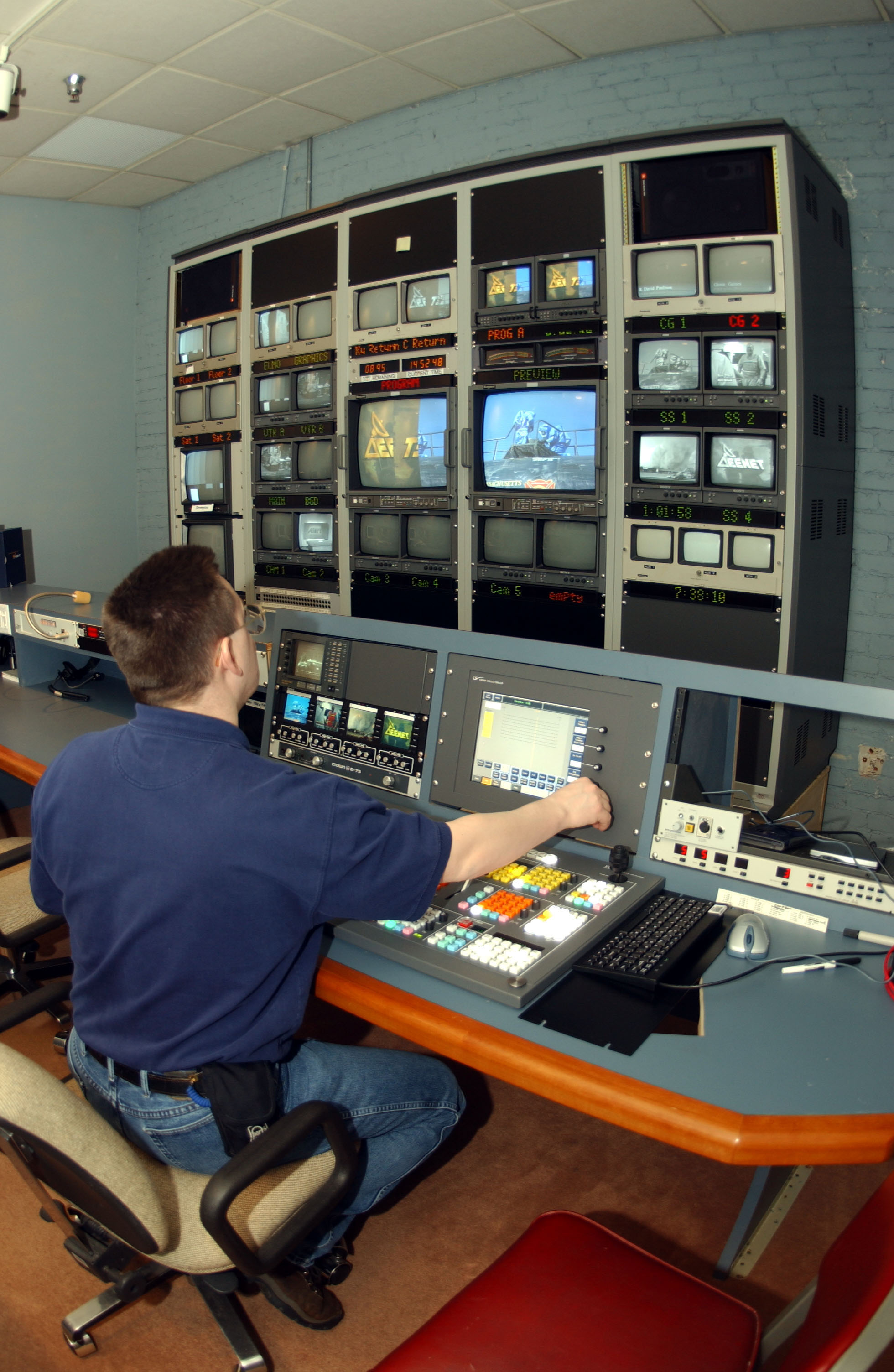 Emmitsburg, MD, March 10, 2003 -- EENET - one of the country's pioneers in distance learning - is located at FEMA's National Emergency Training Center. Upgrades in digital technology greatly improved the Emergency Education Network broadcasts in 2002. Photo by Jocelyn Augustino/FEMA News Photo